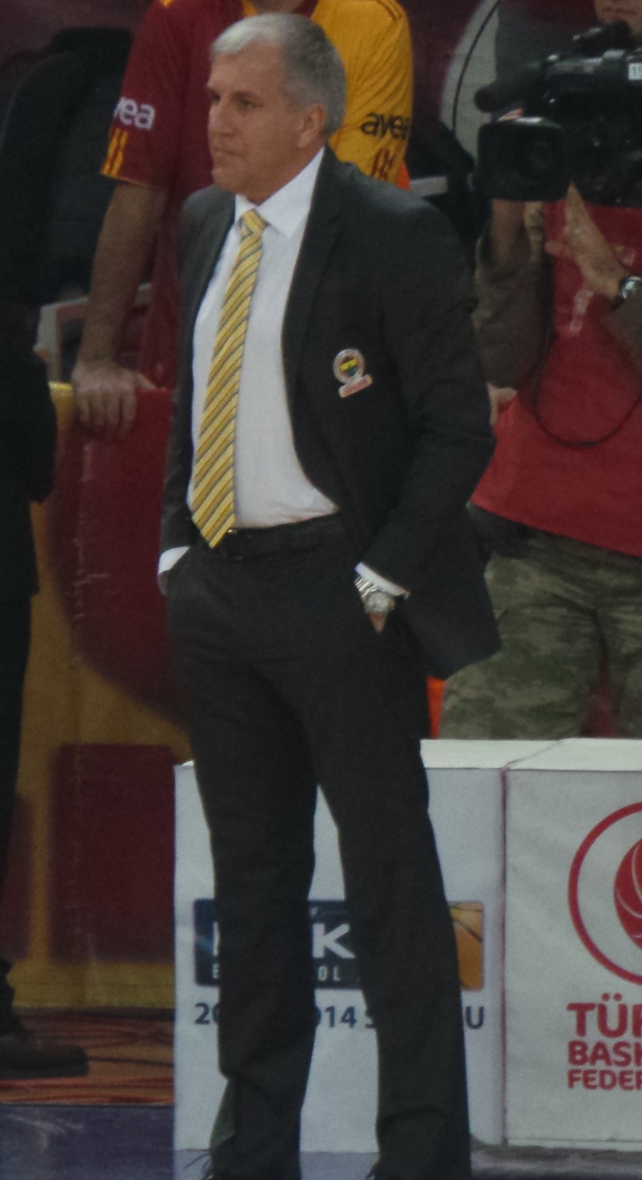 Željko Obradović